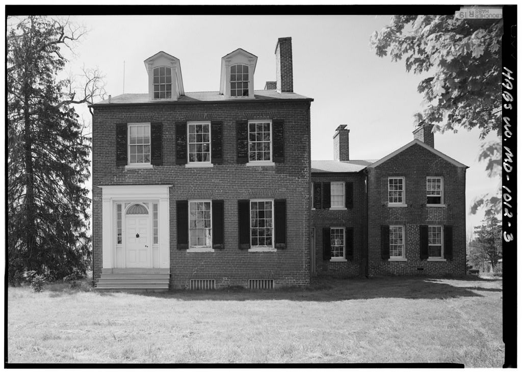 Pleasant Hills: NORTH (FRONT) ELEVATION, HABS MD,17-MARBU,11-3]